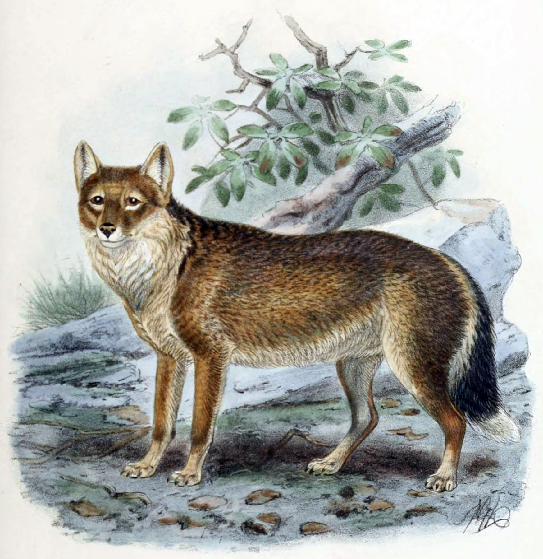 Falkland Island fox or "Antarctic Wolf" by John Gerrard Keulemans, from St. George Mivart's Dogs, Jackals, Wolves, and Foxes: A Monograph of the Candidae, published by R. H. Porter, London, 1890. Lithography by Mintern Brothers. Source [1] (item KEUL-C4), via wiki.en